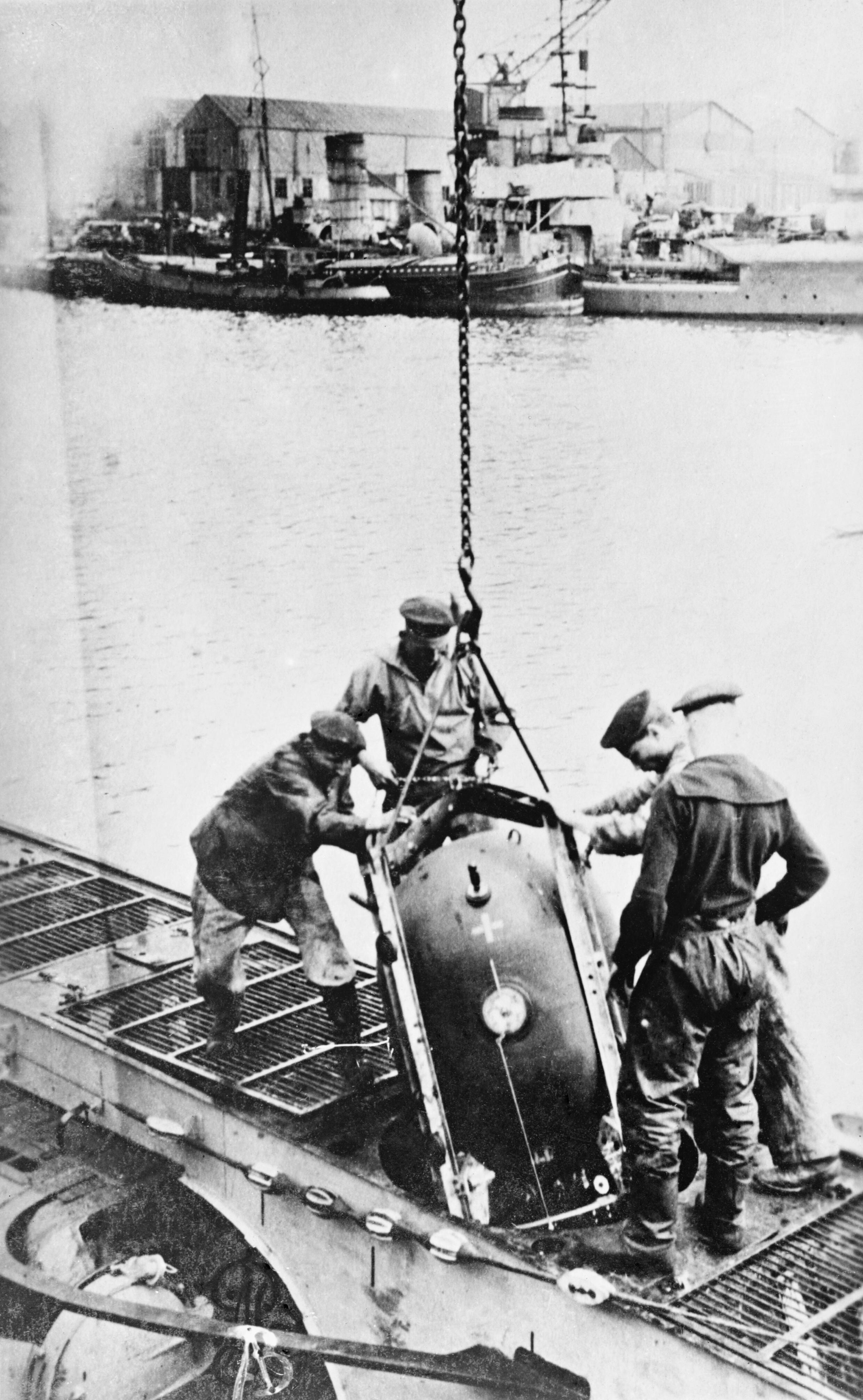 THE IMPERIAL GERMAN NAVY'S FLANDERS FLOTILLA DURING THE FIRST WORLD WAR Loading mines on to a German UC Class minelaying submarine in Zeebrugge harbour.